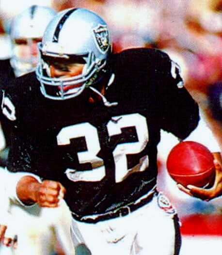 Los Angeles Raiders running back Marcus Allen rushing the ball against the Pittsburgh Steelers during a December 16, 1984 home game at Los Angeles Memorial Coliseum.